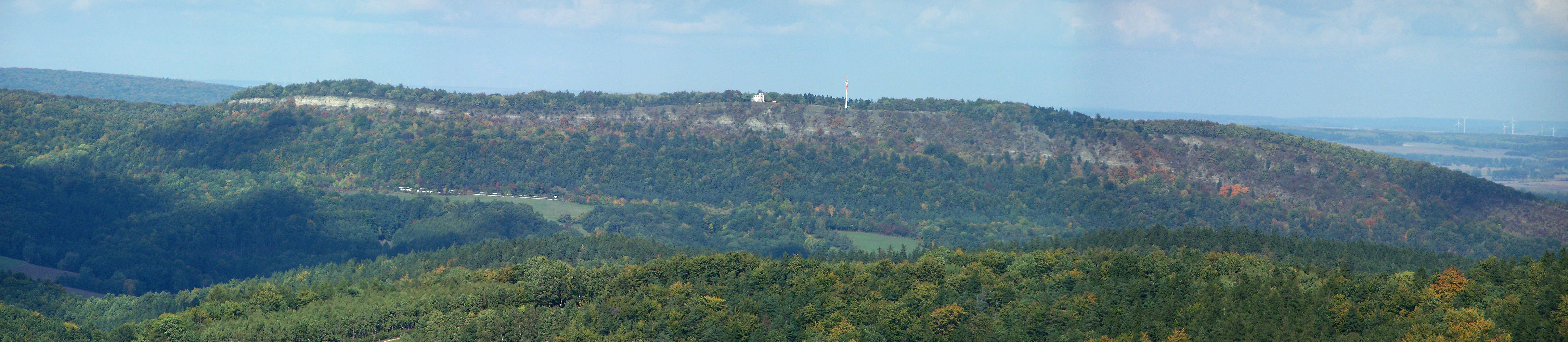 The panorama view of the Great Hoerselberg - seen from view point Grosser Wartberg at Seebach village.